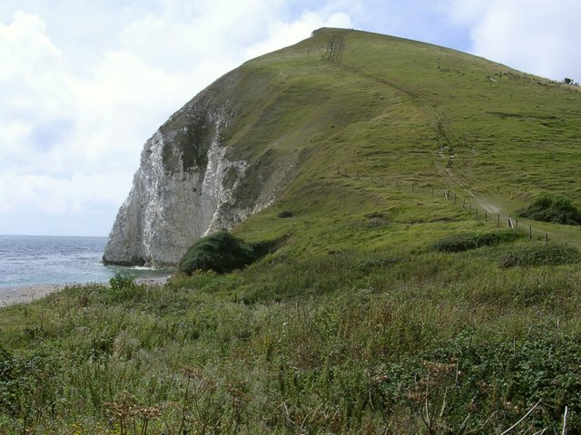 East end of Bindon Hill from Arish Mell gap. Looking up at the eastern end of Bindon Hill from Arish Mell gap. The beach at Arish Mell, visible on the left, is not open to the public. The coastal path up this end of the hill is very steep, and even if it isn't the steepest on the Dorset coast it certainly felt like it.